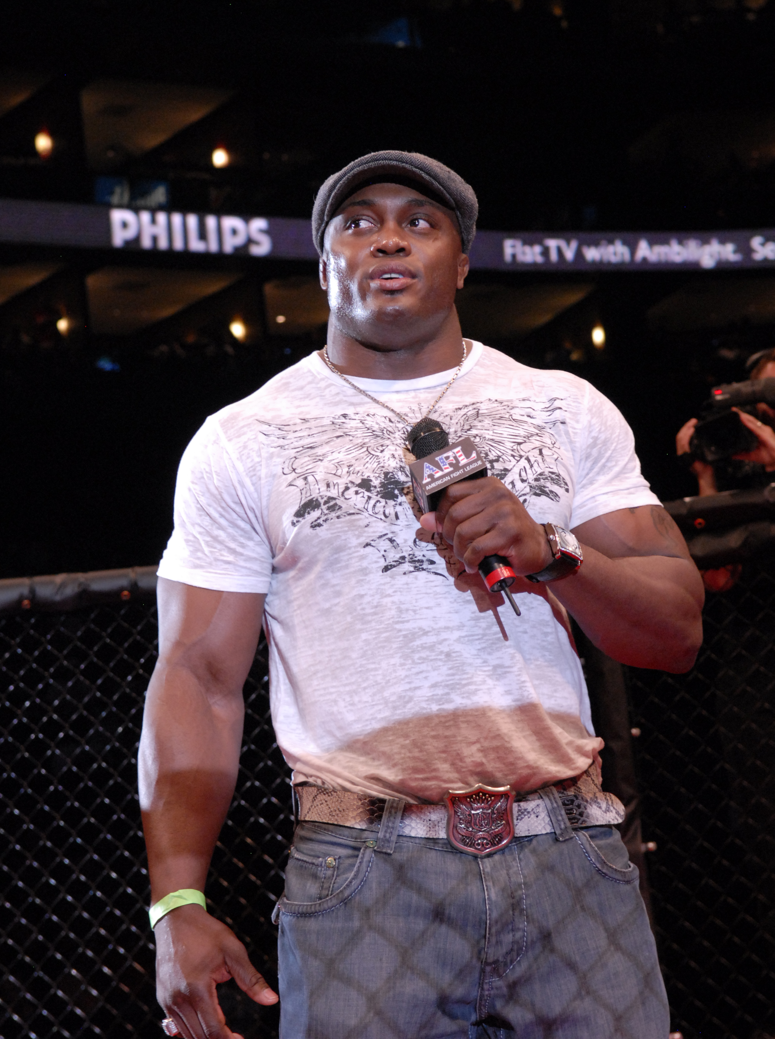 Bobby Lashley at AFL: Bulletproof event in Atlanta, Georgia